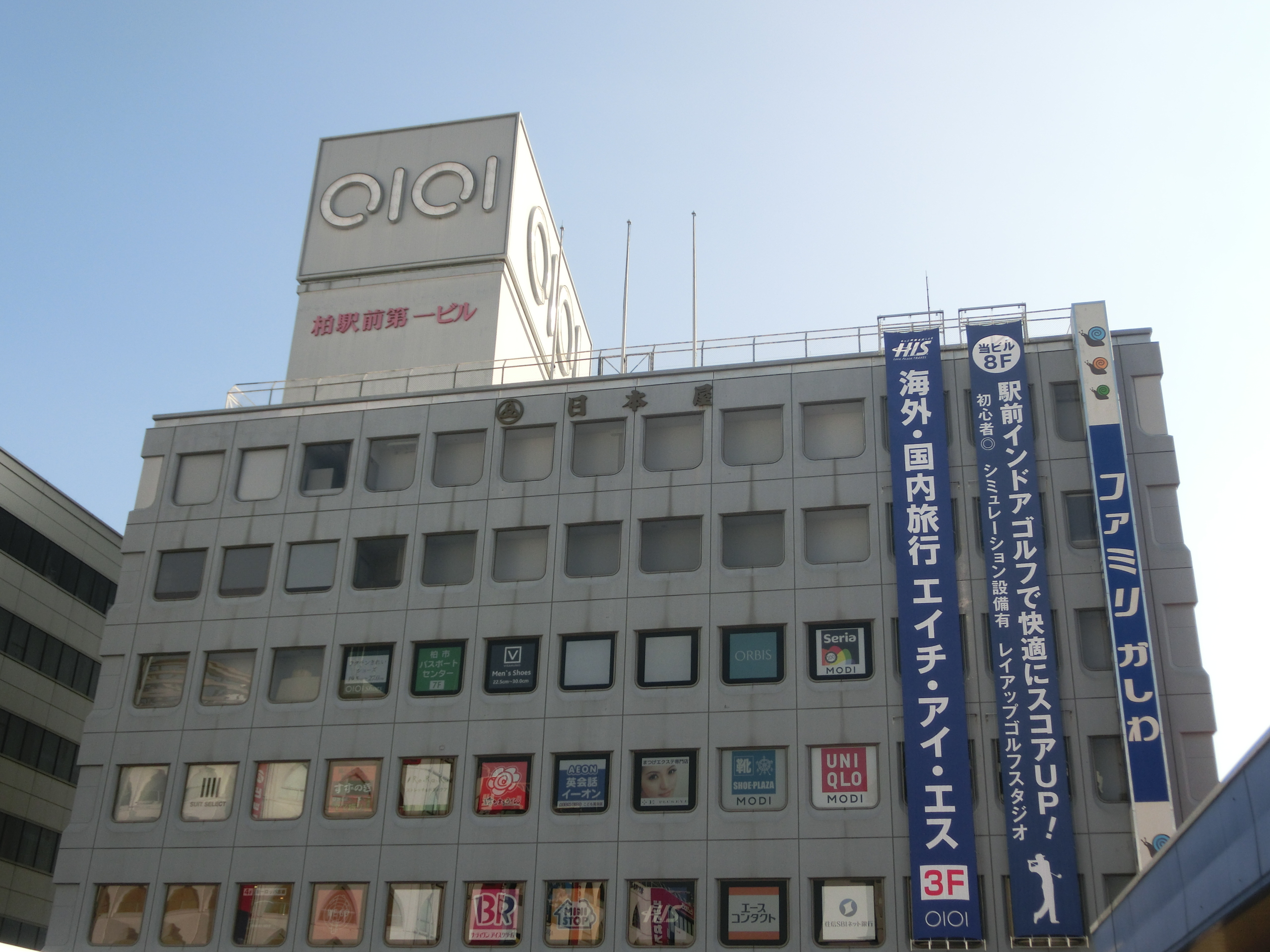 Family Kashiwa